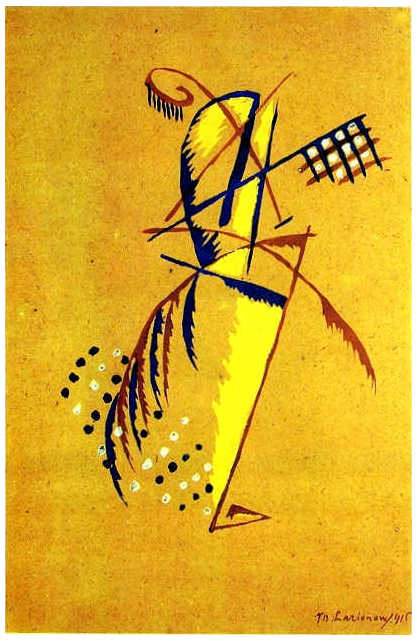 A Dancer in Motion. 1915. Costume design.